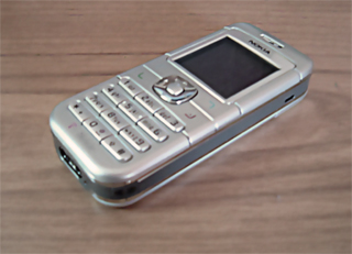 The Nokia 6030B (silver) shown on mahogany surface.